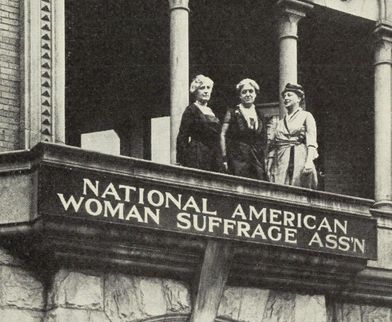 Helen Hamilton Gardener, Carrie Chapman Catt and Maud Wood Park (from left to right) on the balcony of Suffrage House, the Washington headquarters of the National American Woman Suffrage Association